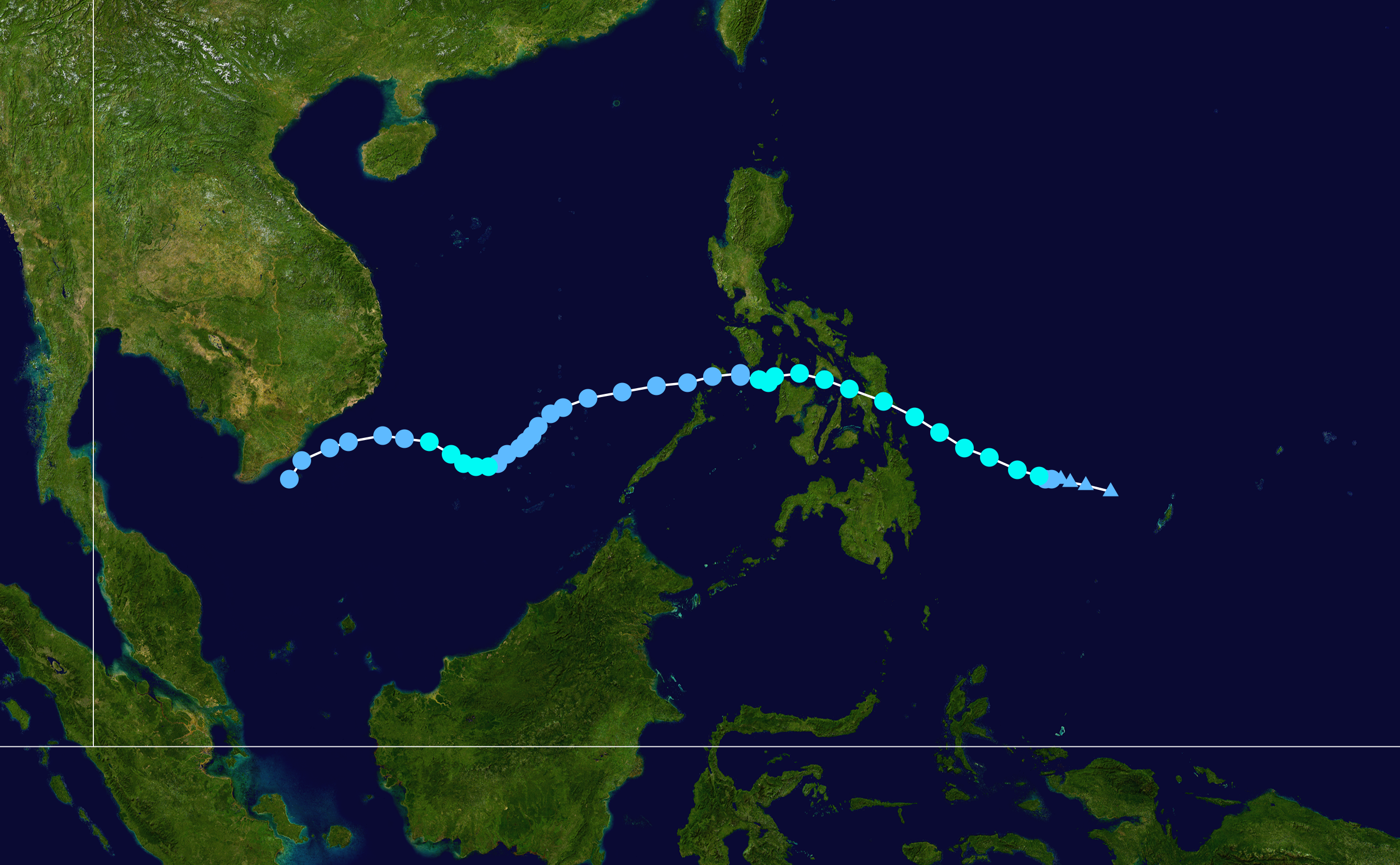 Track map of Tropical Storm Rumbia of the 2000 Pacific typhoon season. The points show the location of the storm at 6-hour intervals. The colour represents the storm's maximum sustained wind speeds as classified in the Saffir–Simpson scale (see below), and the shape of the data points represent the nature of the storm, according to the legend below. Saffir–Simpson scale Tropical depression≤38 mph≤62 km/h Category 3111–129 mph178–208 km/h Tropical storm39–73 mph63–118 km/h Category 4130–156 mph209–251 km/h Category 174–95 mph119–153 km/h Category 5≥157 mph≥252 km/h Category 296–110 mph154–177 km/h Unknown Storm type Tropical cyclone Subtropical cyclone Extratropical cyclone / Remnant low / Tropical disturbance / Monsoon depression